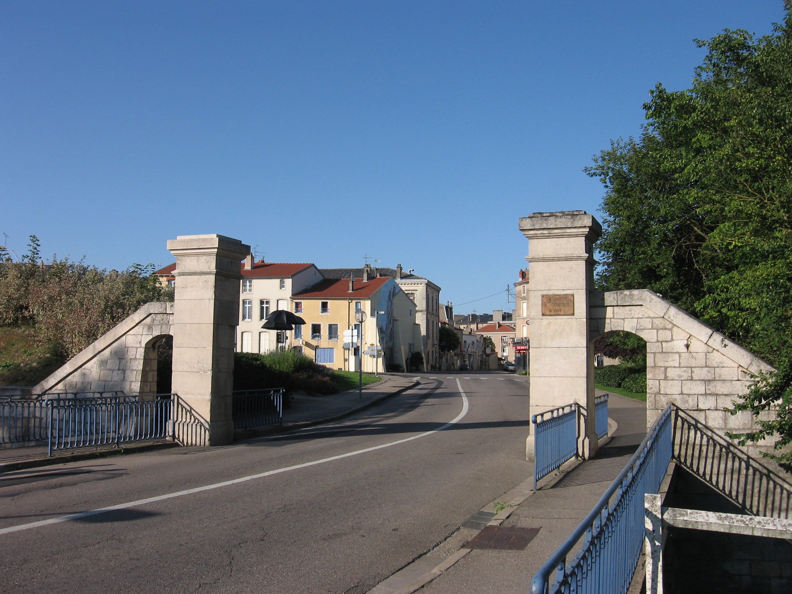 Porte Jeanne d'Arc